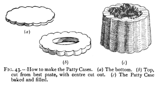 The procedure for making vol-au-vents, also known as patty cases.